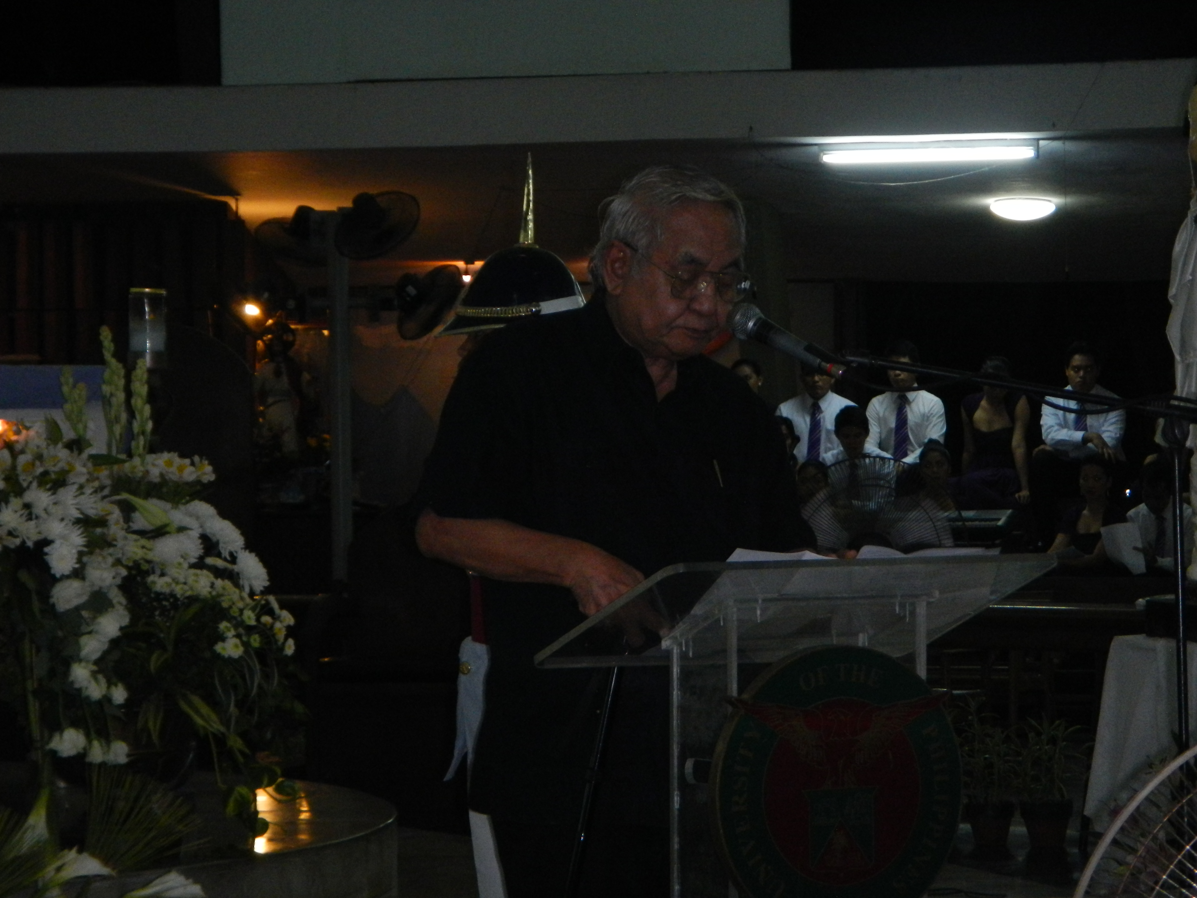 Francisco Nemenzo, Jr.[1]is a Filipino political scientist, educator and activist, and was the 18th president of the University of the Philippines. Born to the 'Father of Philippine coral taxonomy' Francisco Nemenzo, Sr., he has become a prominent Marxist figure in the Philippine academe. He is Professor Emeritus of Political Science at the University of the Philippines Diliman and remains teaching courses in political philosophy and Philippine government at the Department of Political Science. - at the Onofre Corpuz[2][3] UP necrological service (Eulogy[4])of April 1, 2013 at the Parish of the Holy Sacrifice[5], UP Diliman.